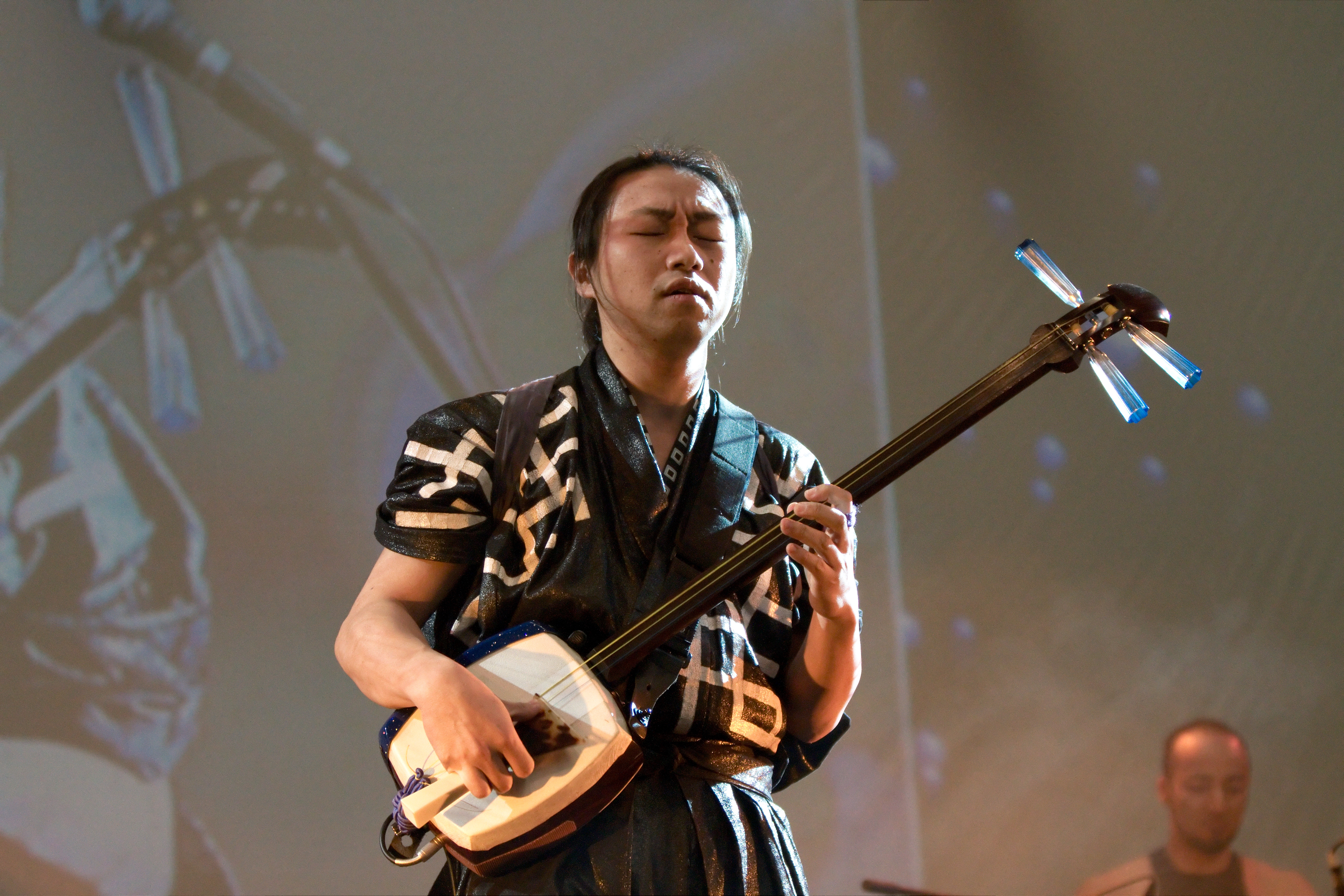 Keisho Ohno live at Japan Expo Sud 2010 (Marseille, France).